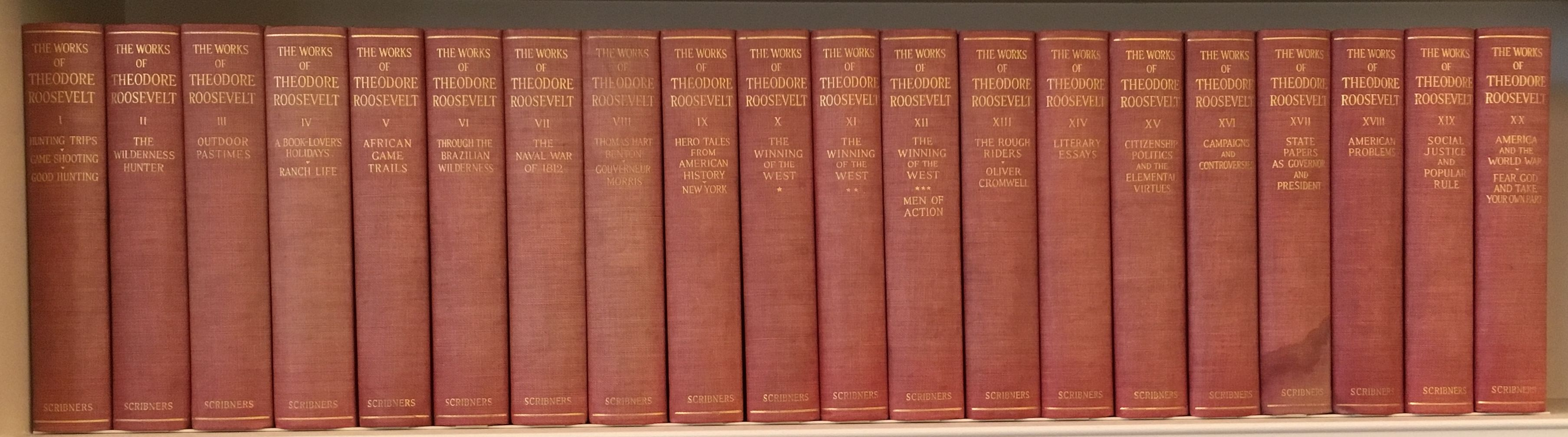 Part of the Works of Theodore Roosevelt. Photographed at the George W. Bush Presidential Center, in the reproduction of the Oval Office